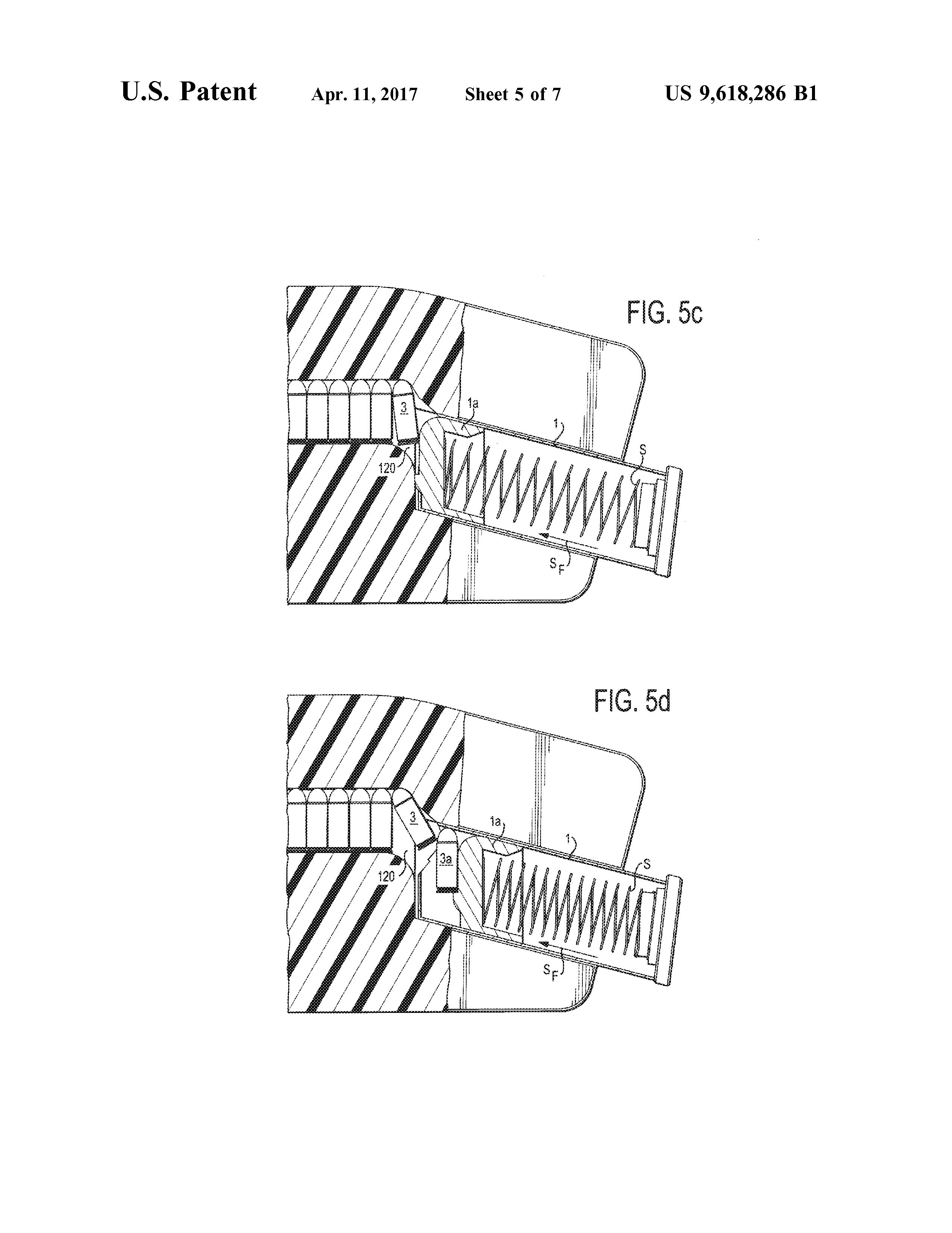 US Patent 9,618,286 Fig. 5C, 5D illustrating an ammunition magazine loading device.